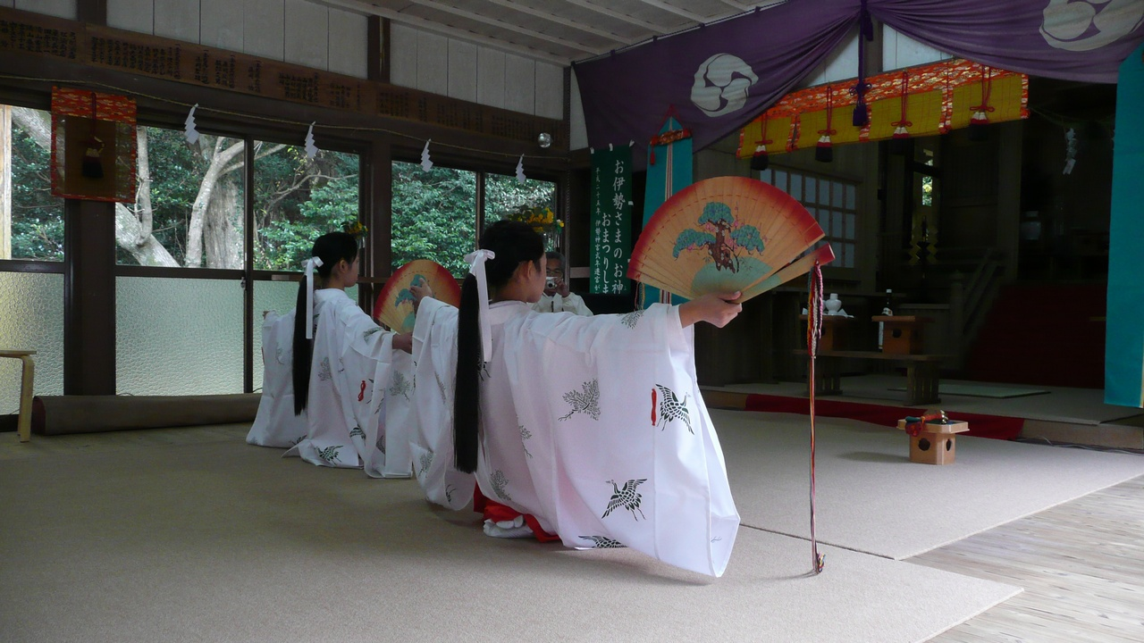 Dance of "Urayasu" (Teruhi Shrine - Osaki Town, Kagoshima, Japan)